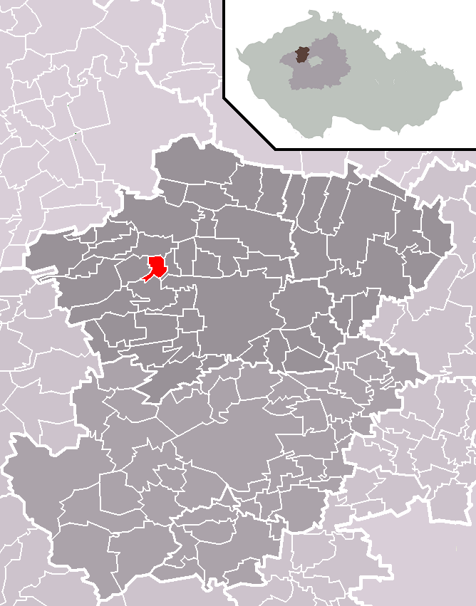 Location of Kvílice municipality within Kladno District and administrative area of Slaný as a Municipality with Extended Competence.